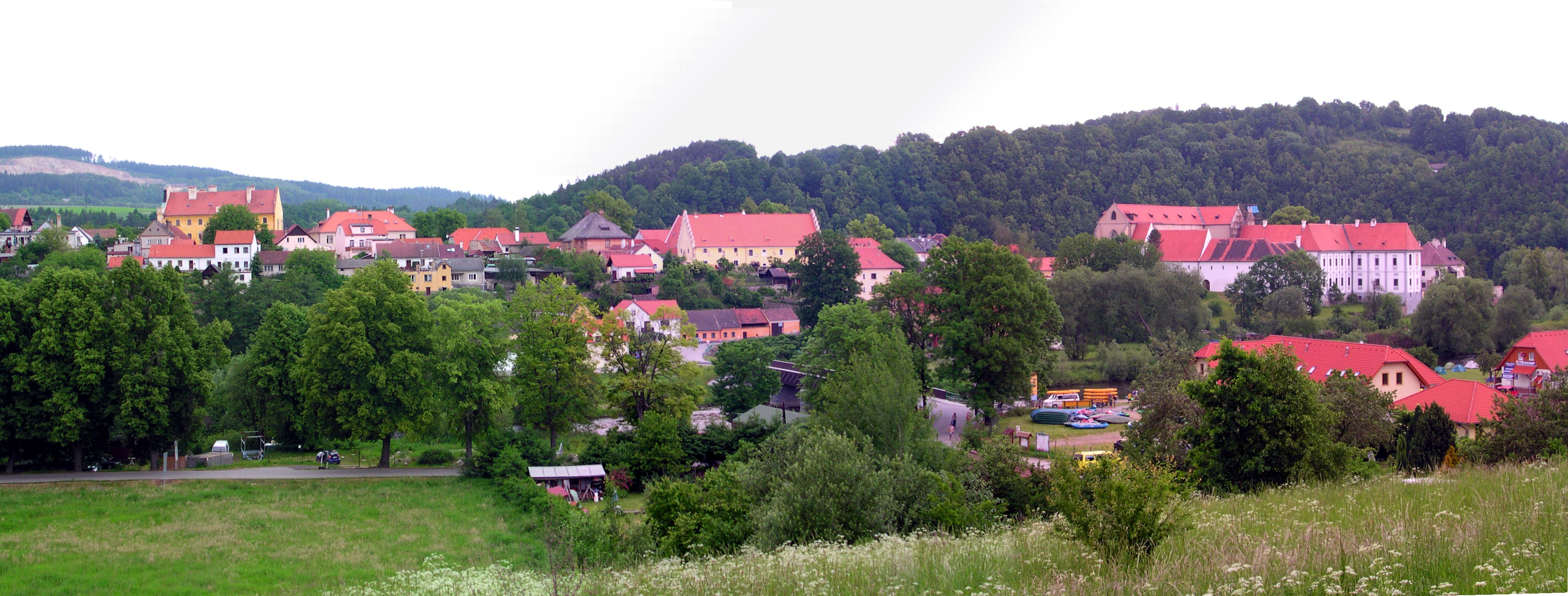 Lower Part of Zlata Koruna (CZ) from East. The Cistercian Monastery at right side.